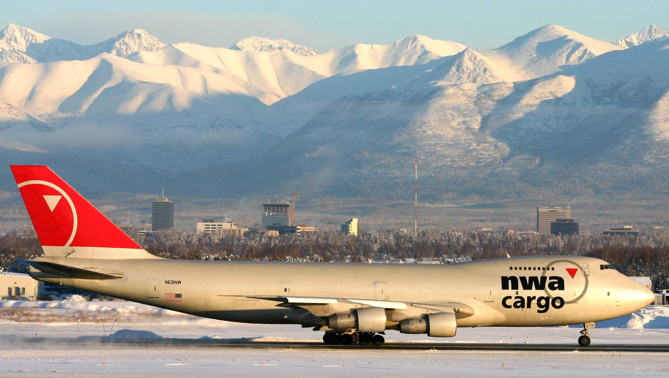 Northwest Airlines Cargo, Boeing 747-251B(SF), N631NW. Taken from a view point near Anchorage International Airport, Alaska in January 2008.